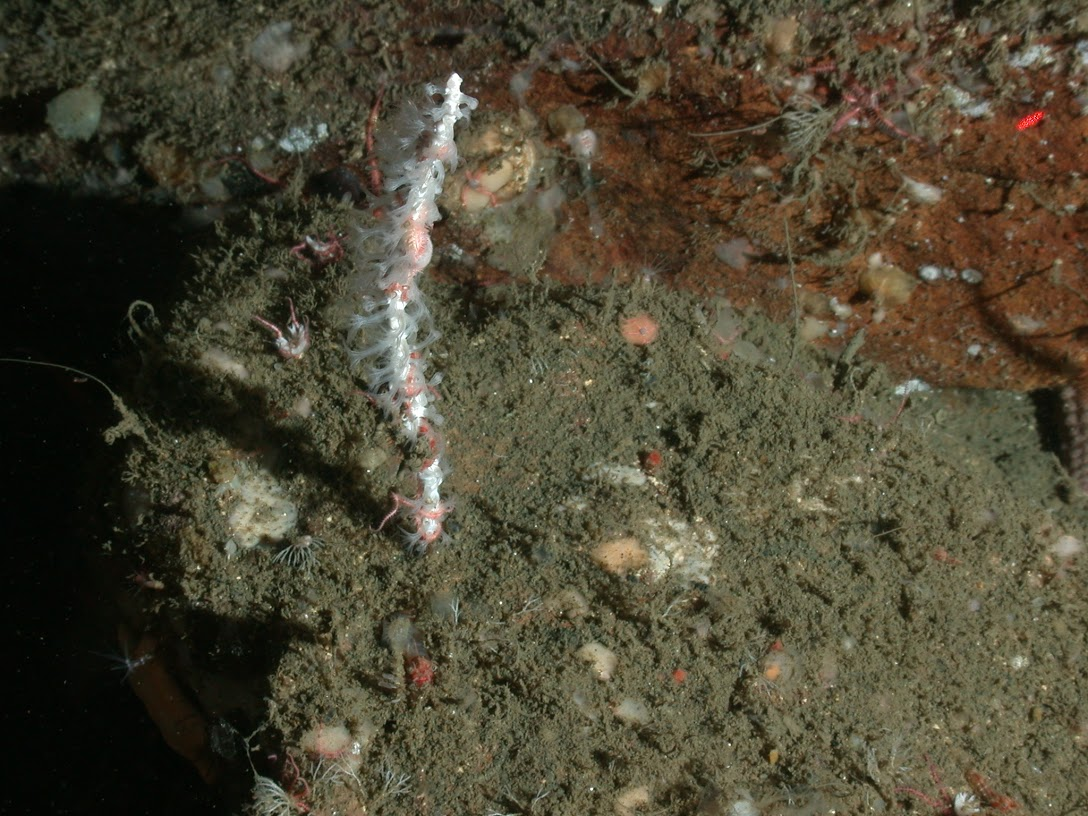 New, unnamed coral species in the genus Leptogorgia, found off the coast of Sonoma County, California, ca sept-nov 2014, announced november 2014